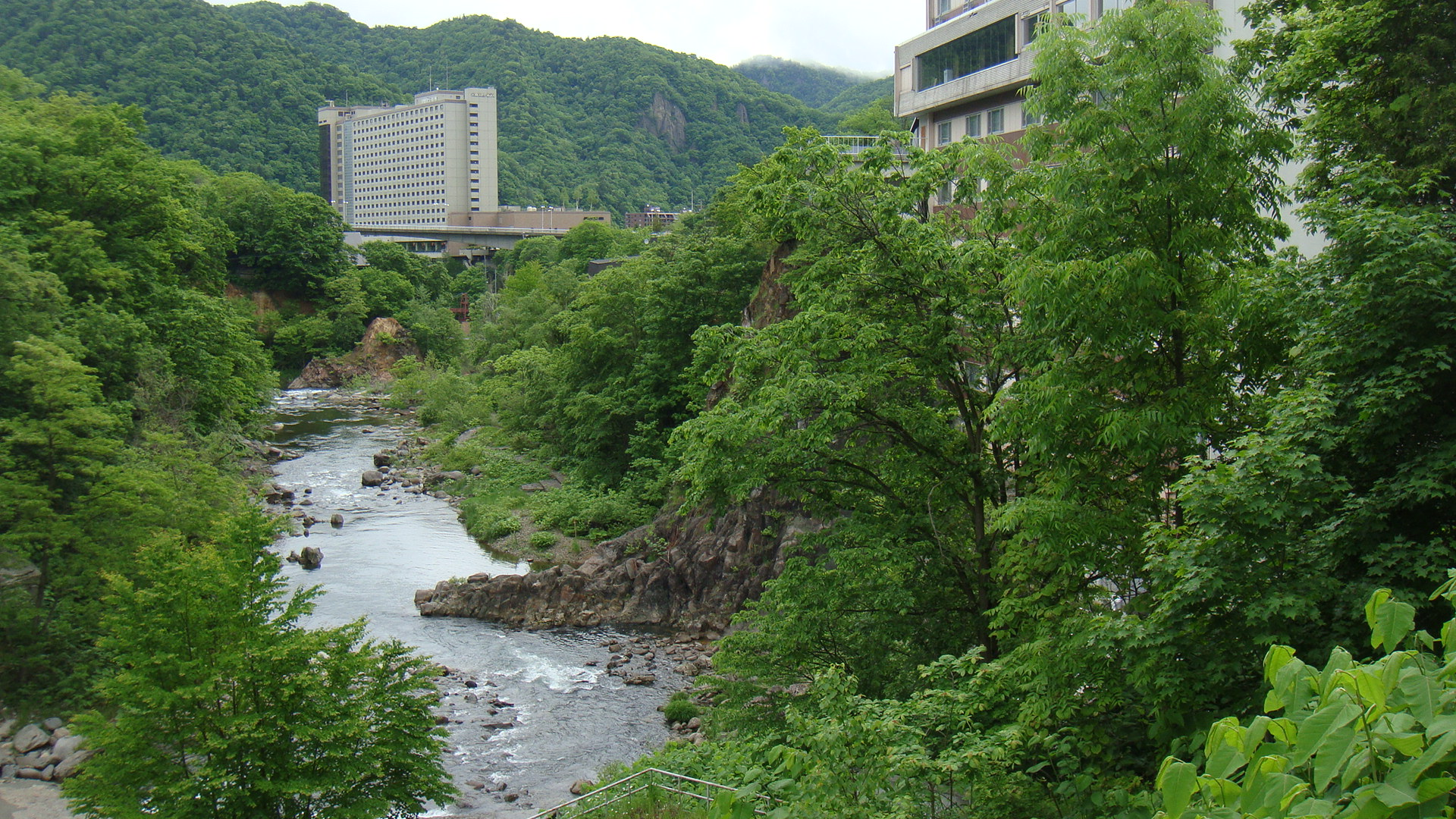 Toyohira River running through Jozankei Onsen, Hokkaido, Japan.